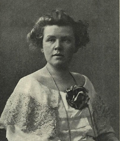 Swedish textile artist Annie Frykholm (1872-1955)